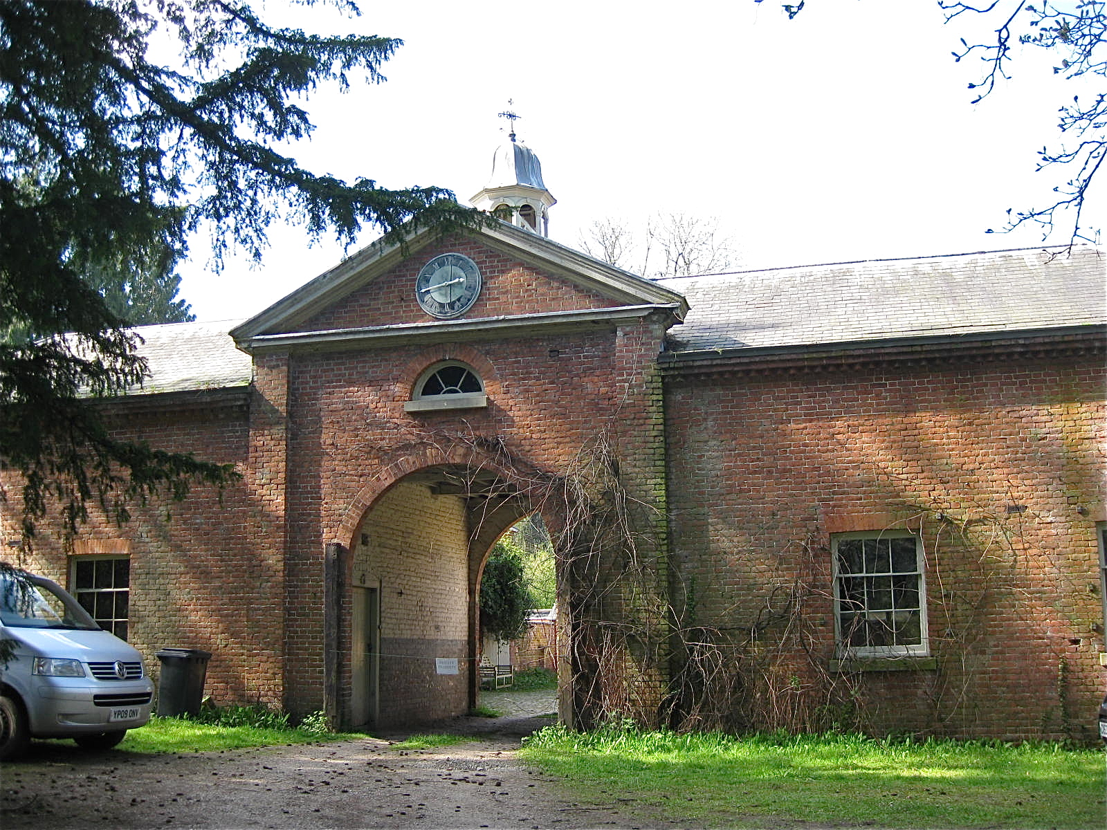 Garthmyl Hall is a Grade II listed house in Berriew, in the historic county of Montgomeryshire, now Powys. Stable block - this may be earlier than the main house